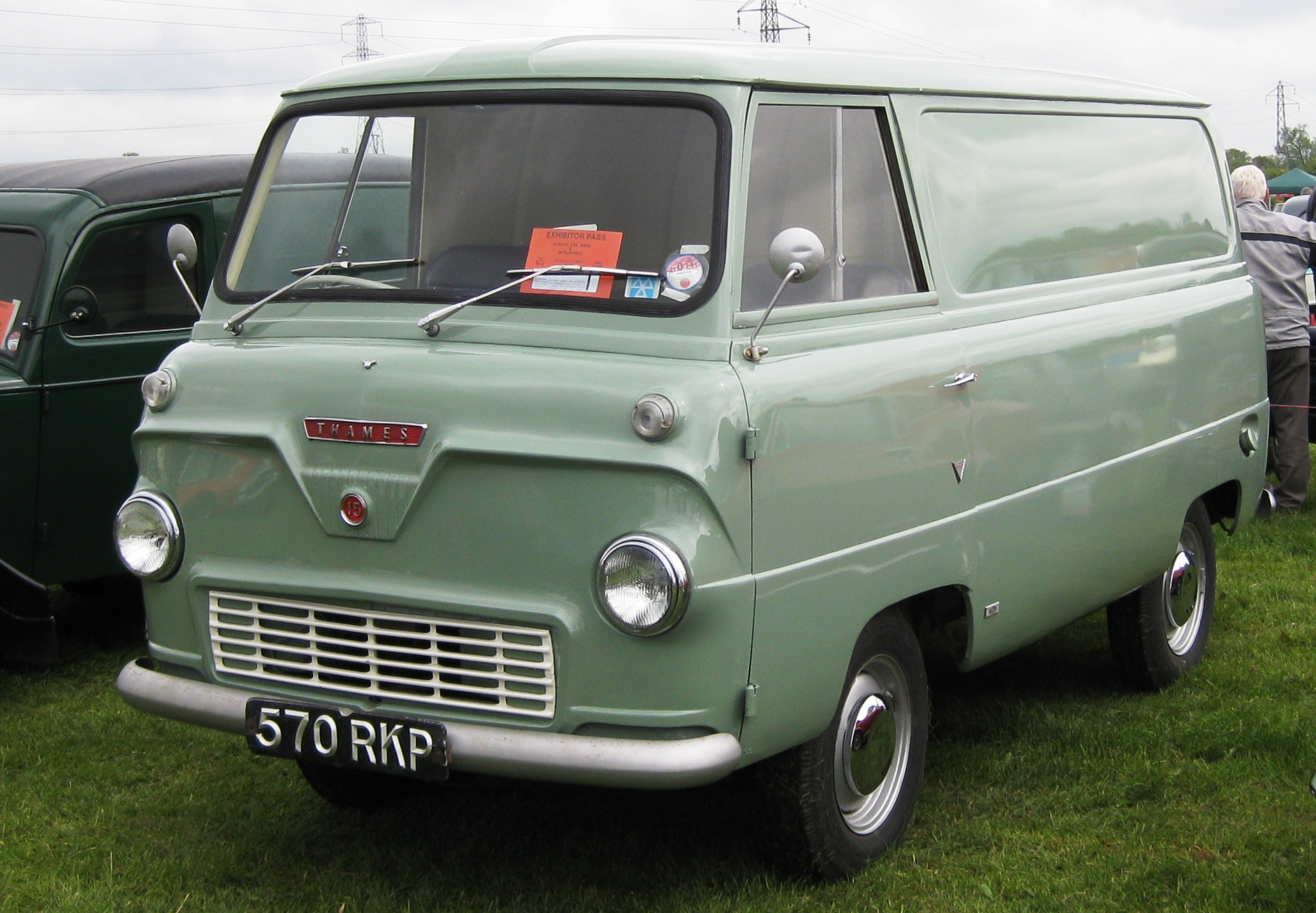 Ford Thames 400E. Bog standard but cleaner.